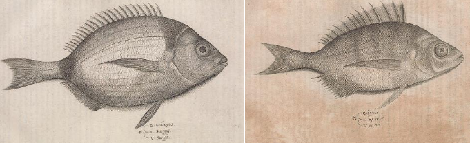 Common two-banded sea bream (Diplodus vulgaris) and sargo (Diplodus sargus)